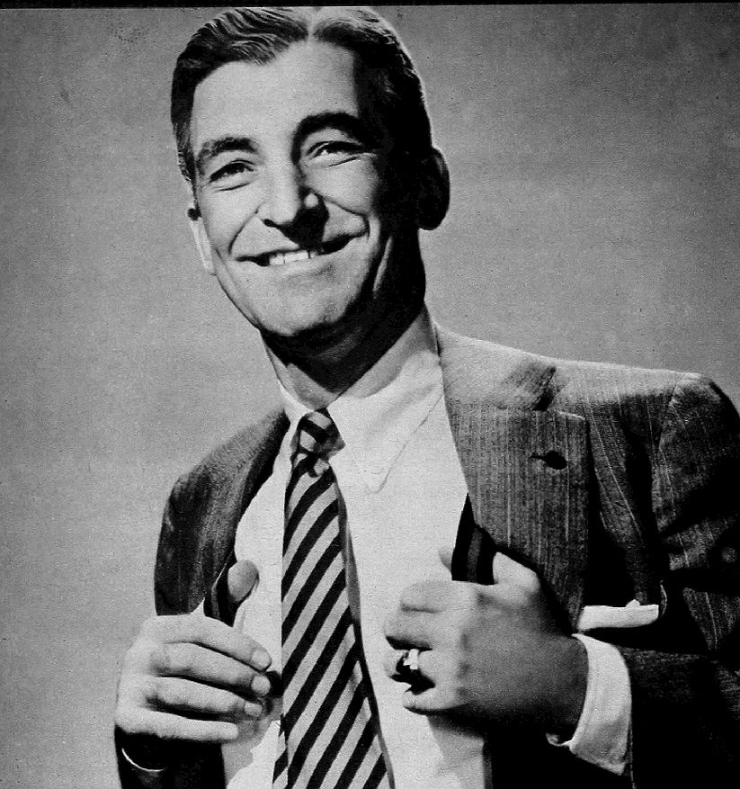 Photo of Walter Kinsella as Patrick Joseph Murphy from the radio program Abie's Irish Rose. Renewal searches were done in publications for the years 1970 and 1971 Macfadden renewed one issue in this time frame-their January 1944 issue. No 1943 issuere were renewed; there's no evidence of current copyright.